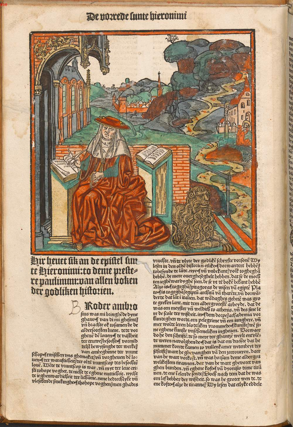 page from the Lübeck Bible (1494), showing the preface of Saint Jerome, woodcut by the Master of the Lübeck Bible